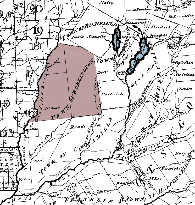 Map of the Town of Bulington, in Otsego County, New York, by Simeon De Witt c. 1792-1793